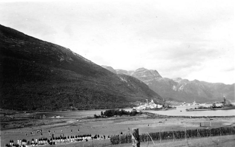 The German battleship Tirpitz, the heavy cruiser Admiral Hipper (background), and destroyers (foreground) at Bogen in Evenes, Nordland, Ofotfjord, Evenes municipality, near Narvik (Norway), in August 1942. In the foreground a football match between ships' crews.